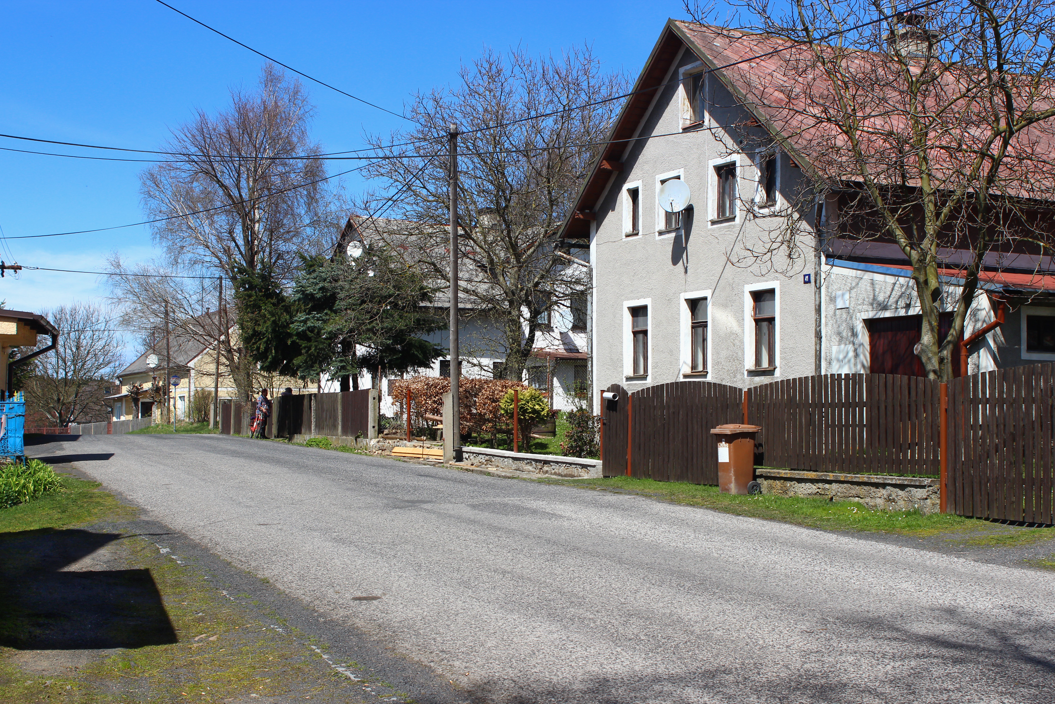 Rybničná, part of Bochov, Czech Republic